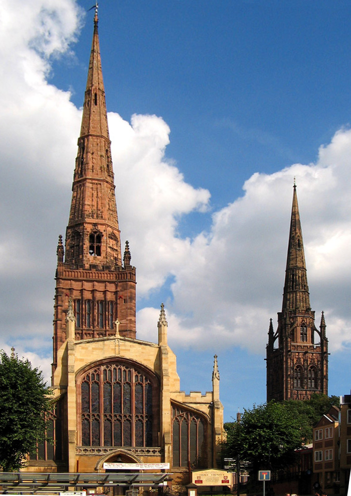 Holy Trinity parish church (left) and the tower and spire of St Michael's Cathedral (right) in central Coventry, England